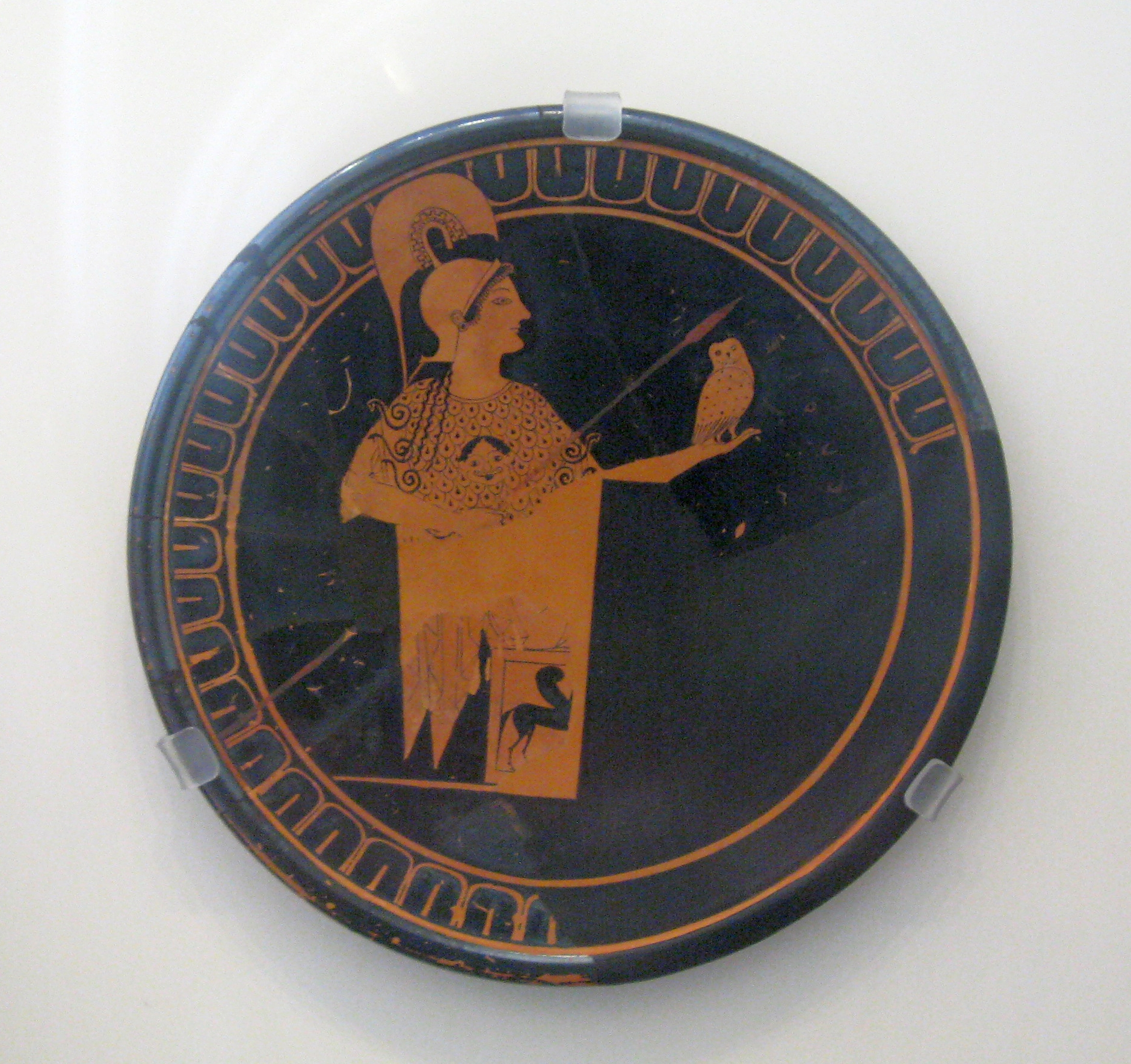 Athena and her owl on an attic red-figure plate by vase-painter Oltos; ca. 520/10 B.C.; Antikensammlung Berlin